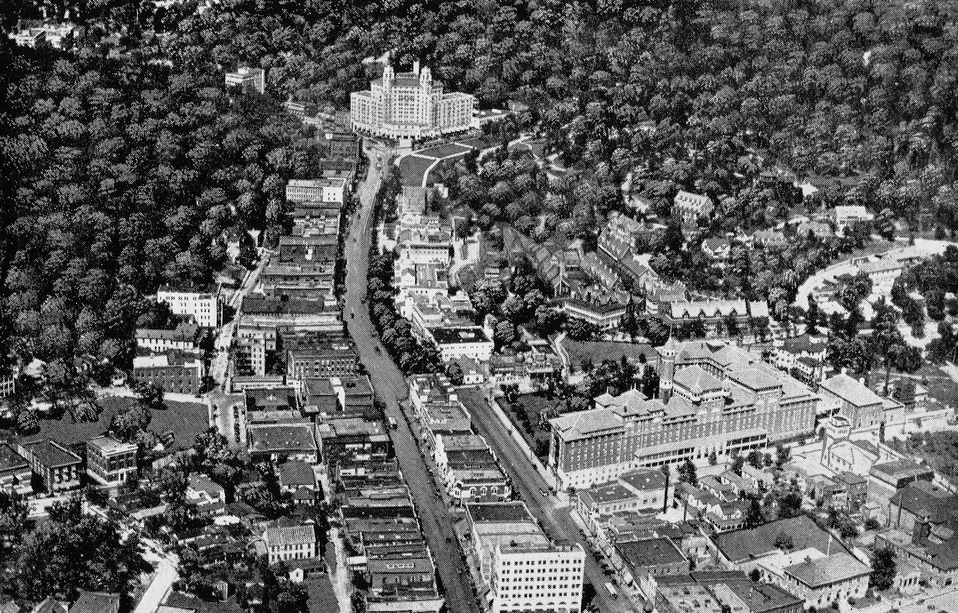 Hot Springs, looking north. Bathhouse Row is on right where Central Avenue widens. Published circa 1924.